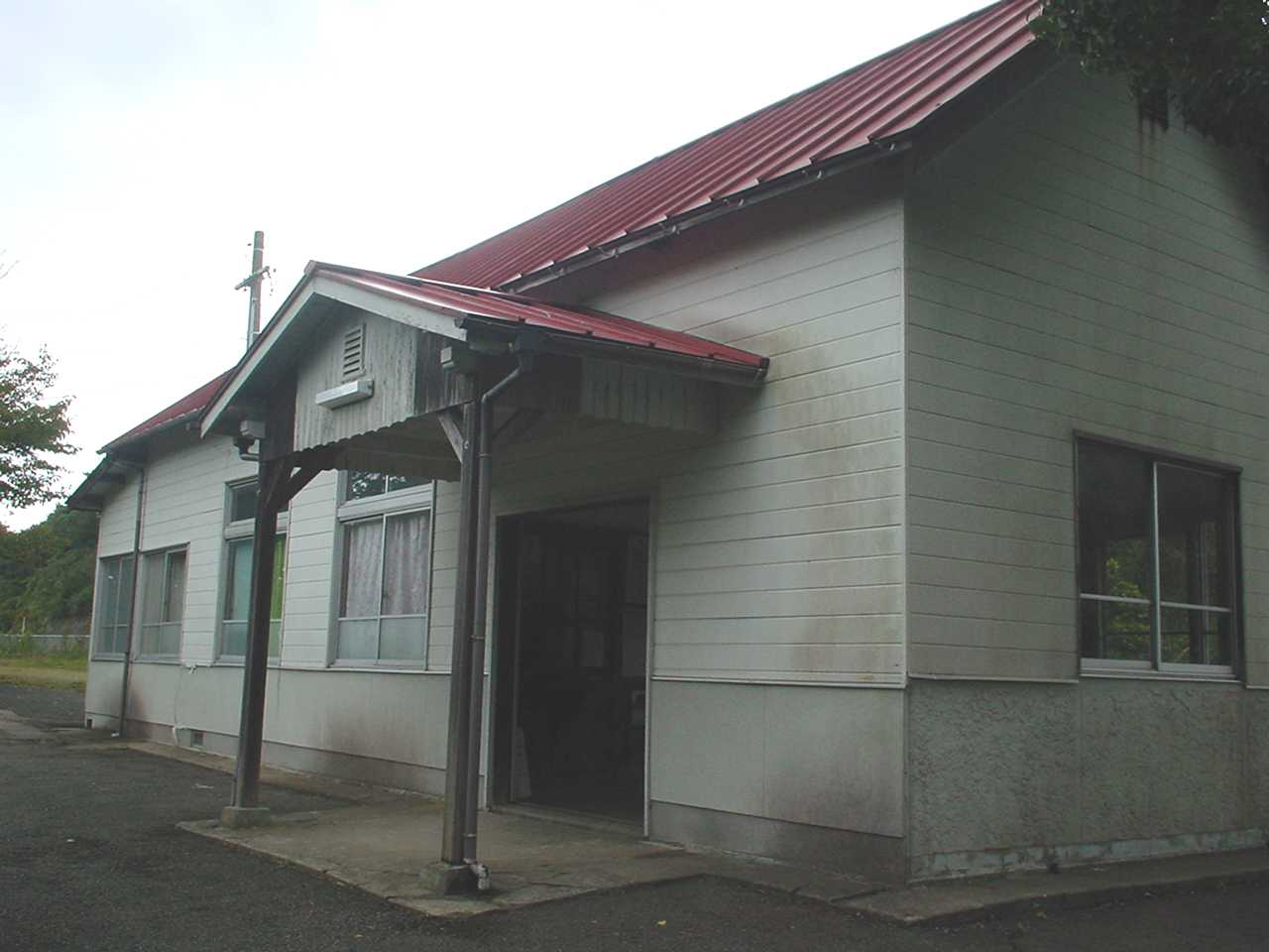 Iinoura Station on the Sanin Main Line